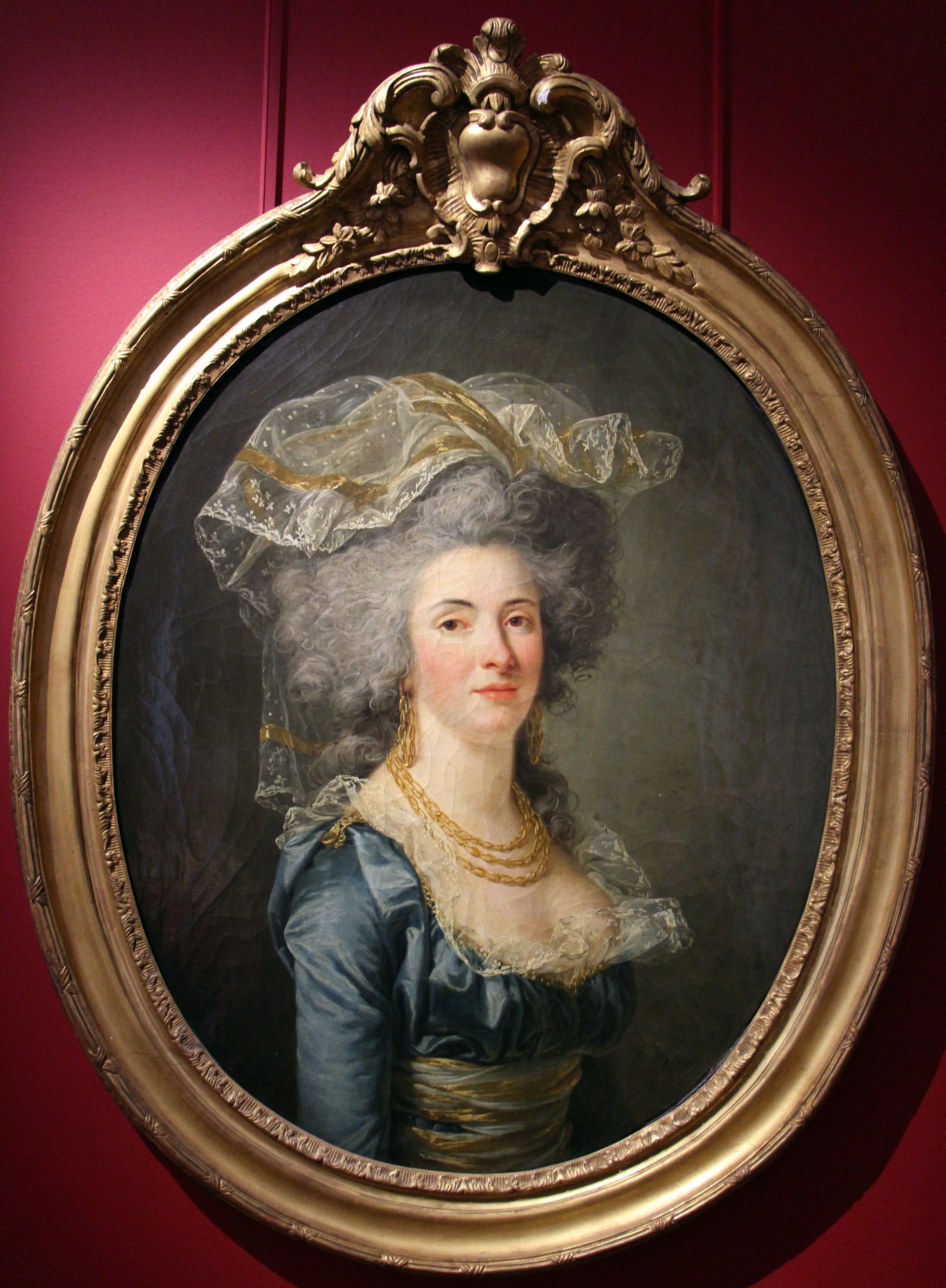 Portrait of Philiberte-Orléans Perrin de Cypierre, Countess of Maussion